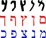 png version of Image:Mancepach.svg (five Aramaic letters which received two forms -- final and non-final -- in Hebrew writing).